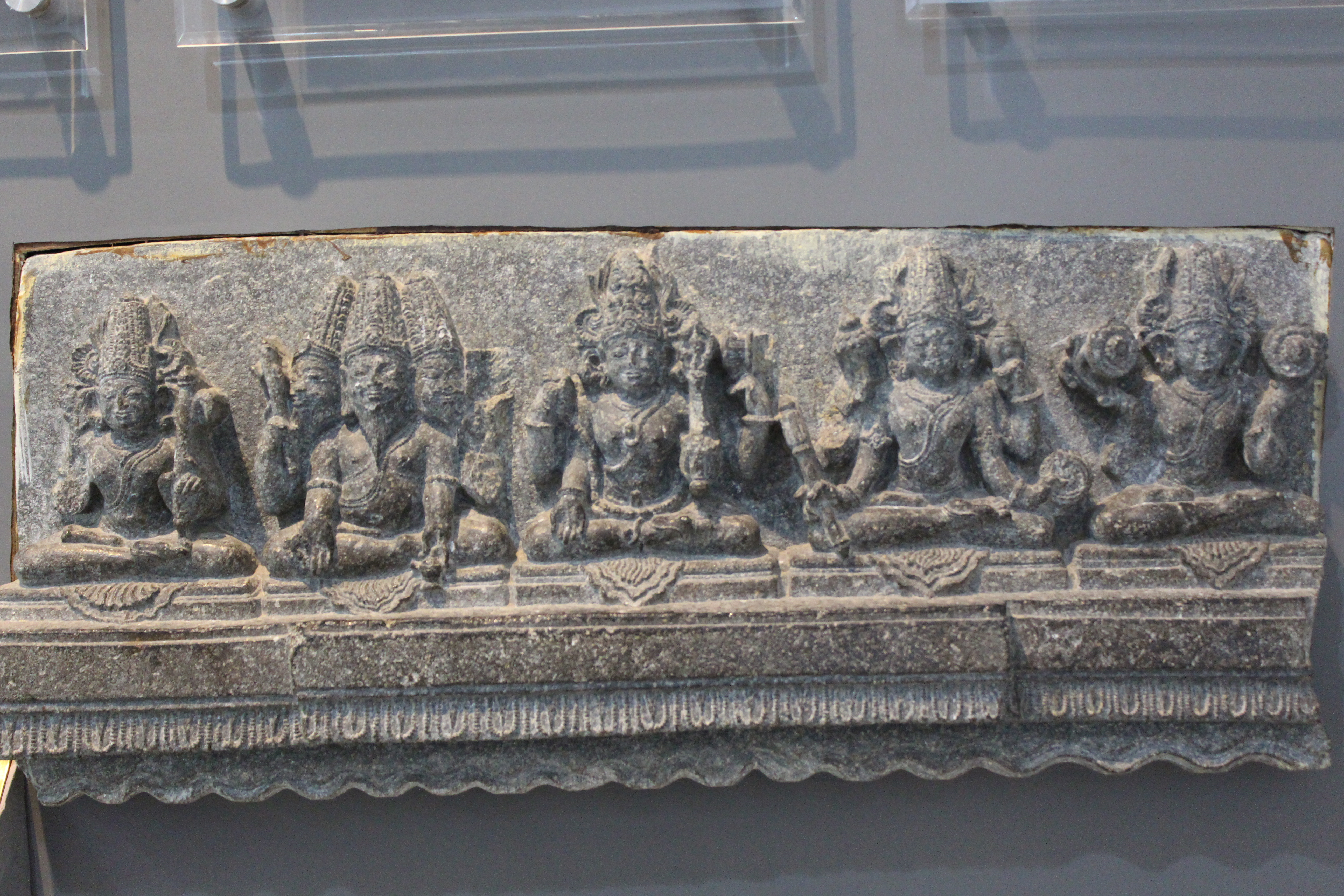 Indra, Brahma, Shiva, Vishnu and Surya at Konark